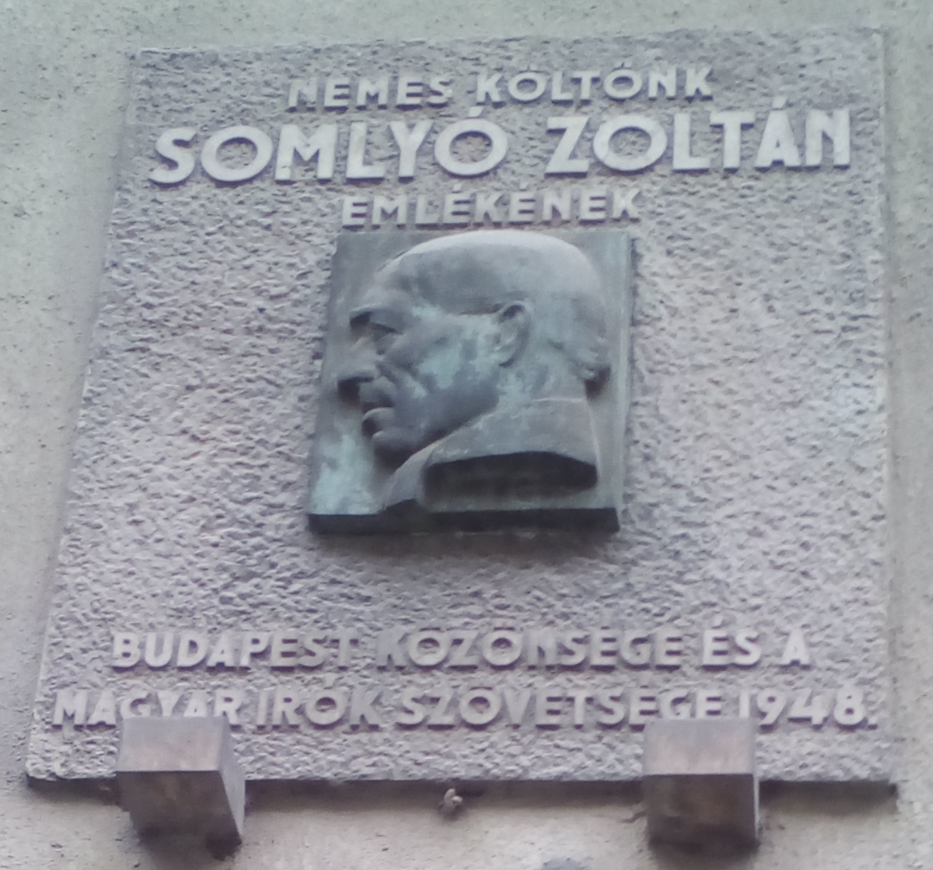 Zoltán Somlyó commemorative plaque in Budapest District XI, Kruspér Street No 7. By István Örkényi Strasszer